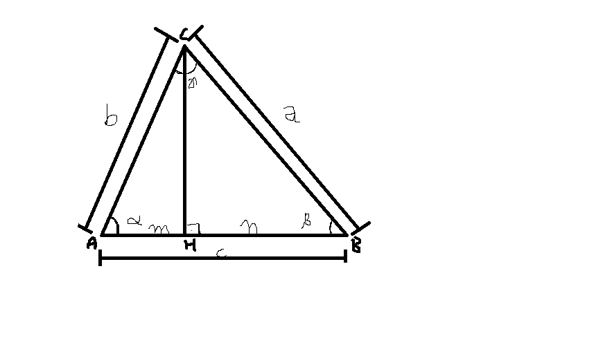 Triangle with projections and angles.